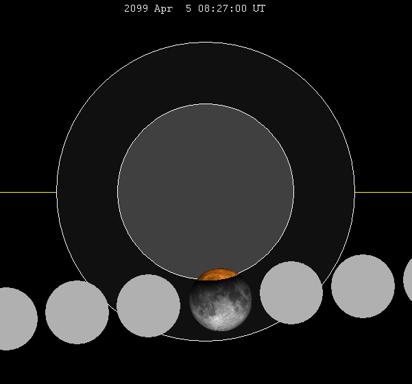 April 2099 lunar eclipse chart of moon's path through the earth's shadow. thumb